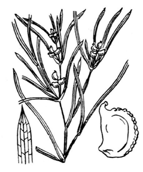 Potamogeton acutifolius